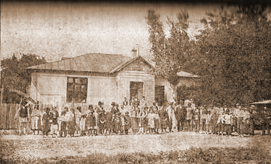 A school festivity for the end of the teaching year at the Public School from Bordei Verde commune, Brăila County, România, 1925.